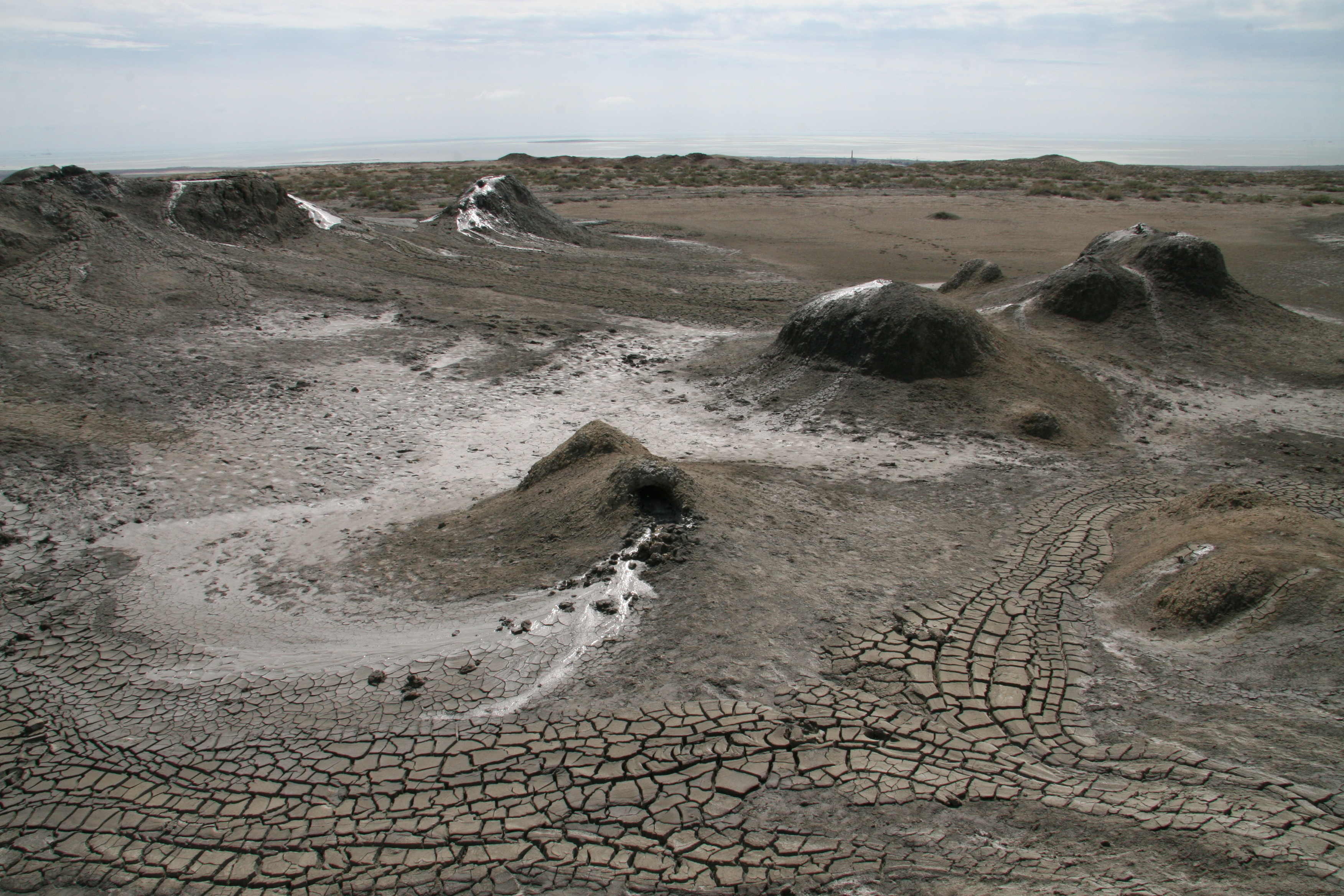 A series of mud volcanos in GobustanLatviešu: Qobustandakı palçıq vlkanlarından biri